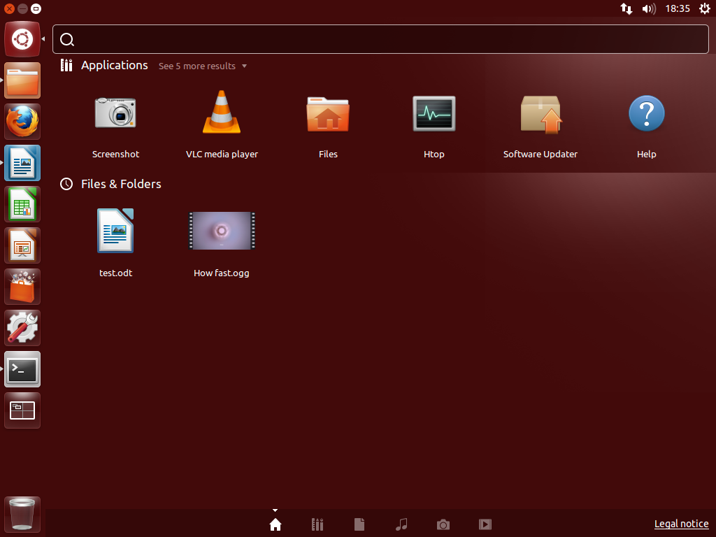 Screenshot of Ubuntu Desktop 12.10 with Unity launcher and dash displayed